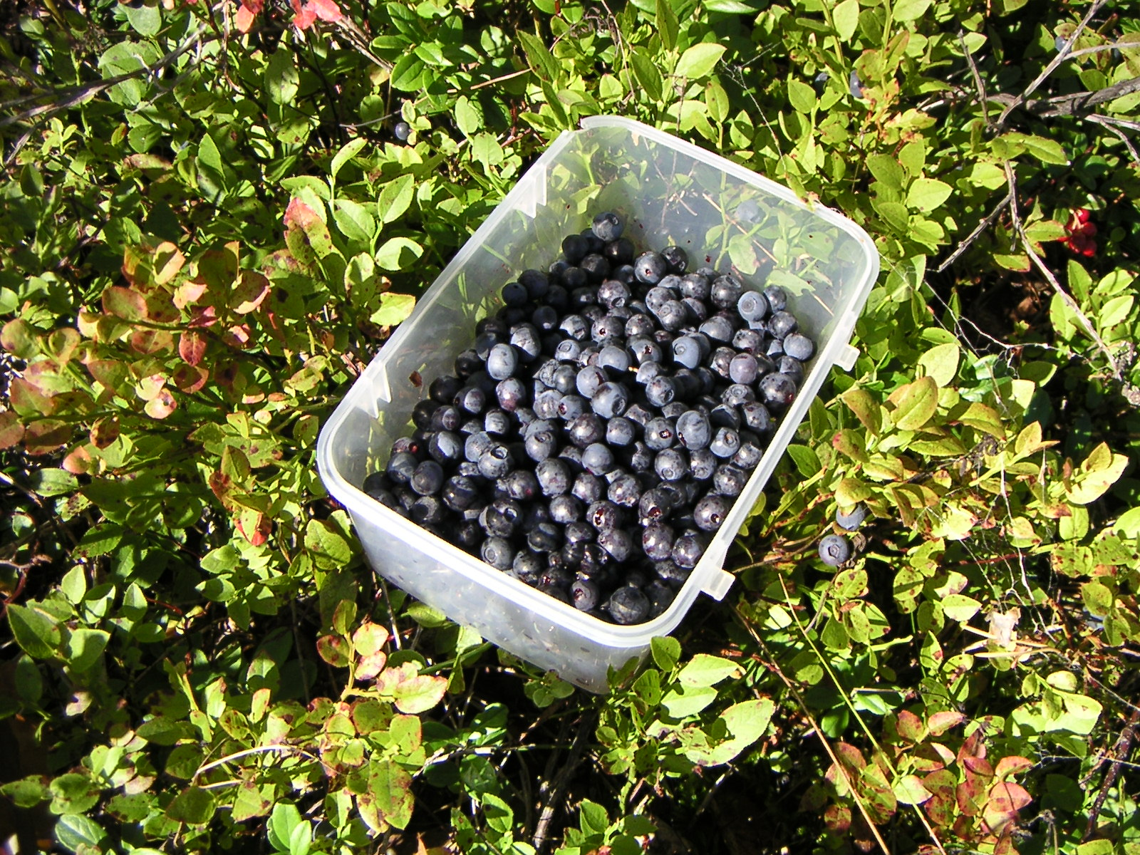 Collection of bilberries in the forest.